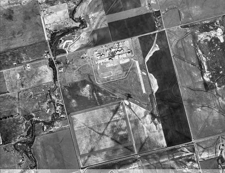 1994 USGS orthophoto showing location of the former Victory Field (Texas).